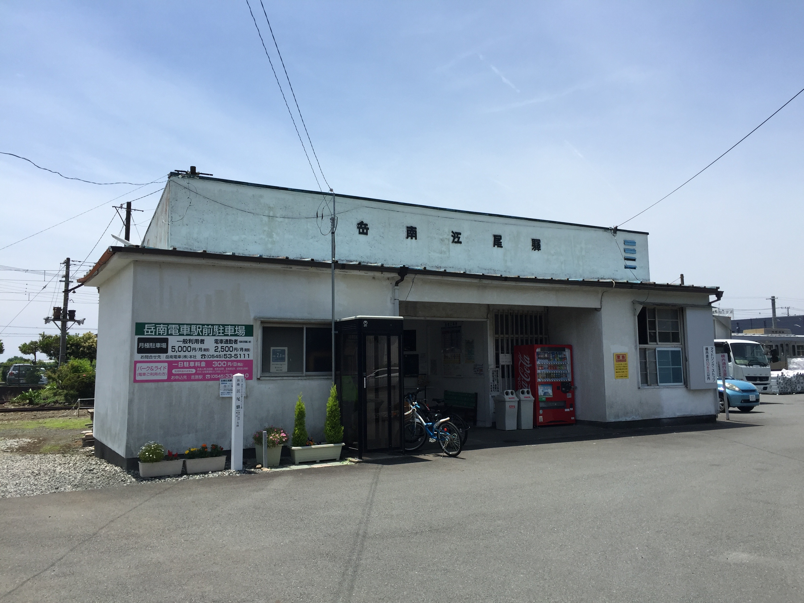 Gakunan-Tetsudo Eno Station is the final stop of the rail line in Fuji city.